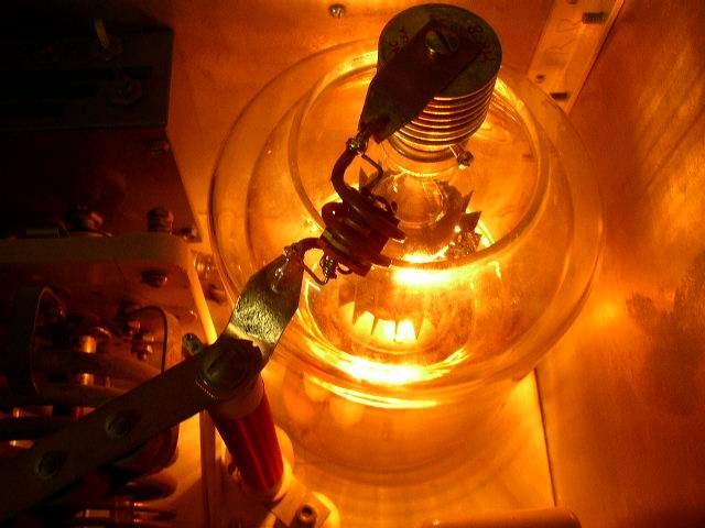 A 4-1000A 1 kW tetrode vacuum tube installed and operating on the RF deck of a linear amplifier in an amateur radio transmitter designed and built by K5LAD.